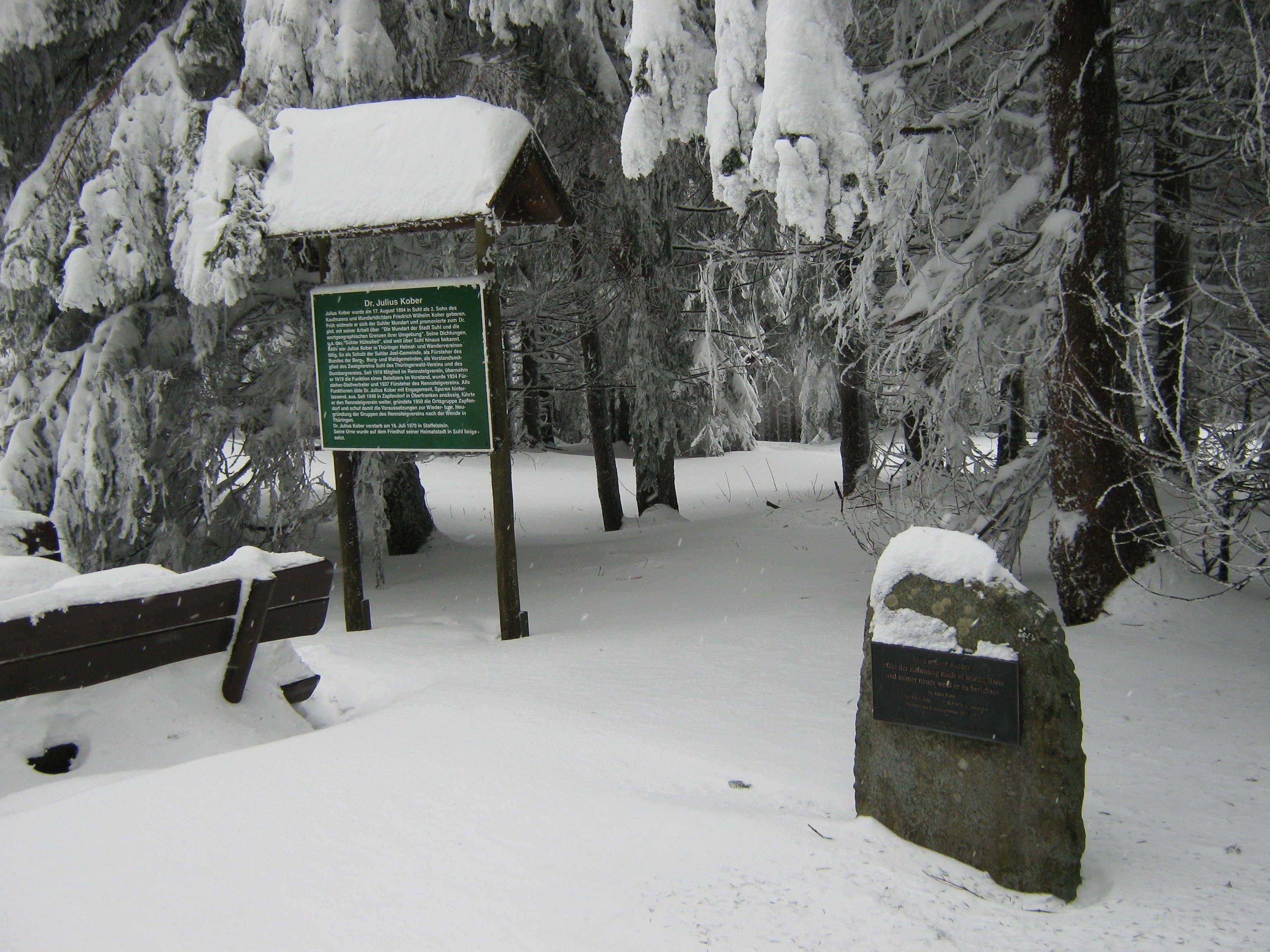 Monument for Julius Kober at Suhler Ausspanne